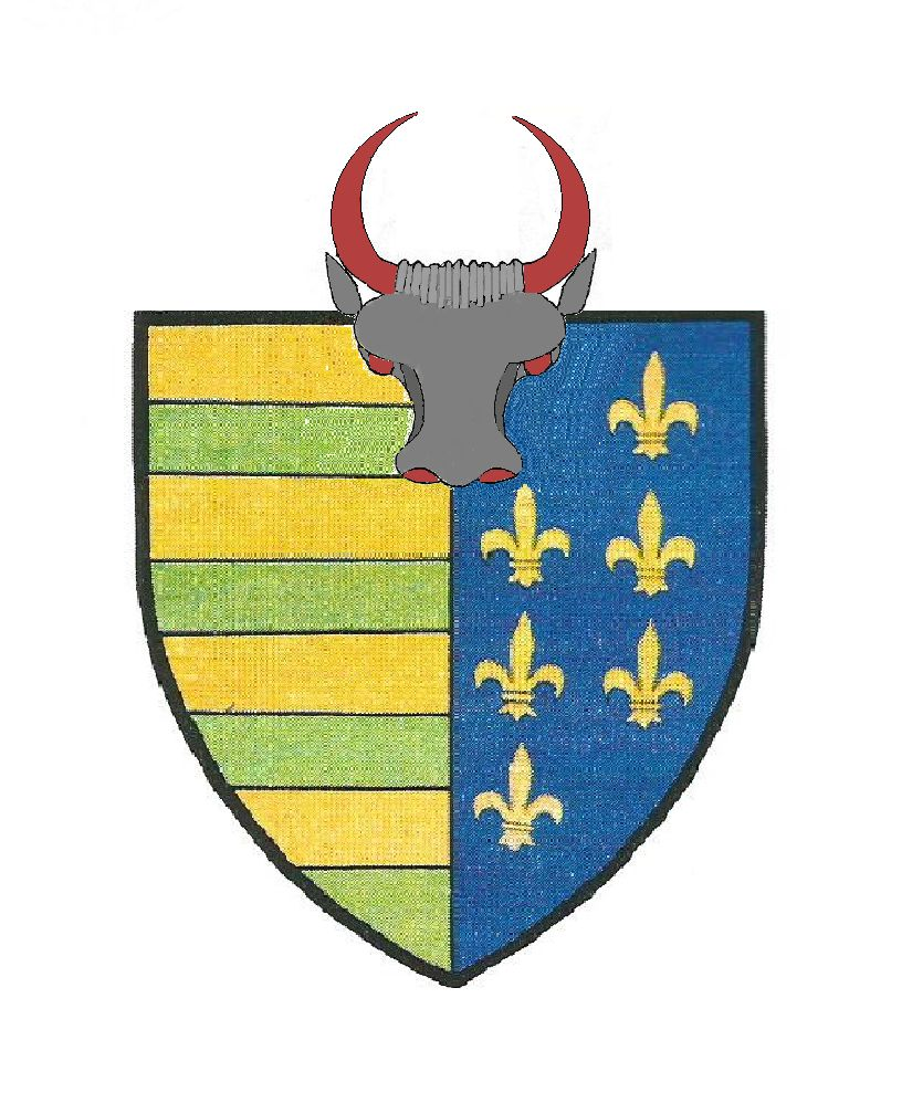 Coat of arms used in Medieval Moldova